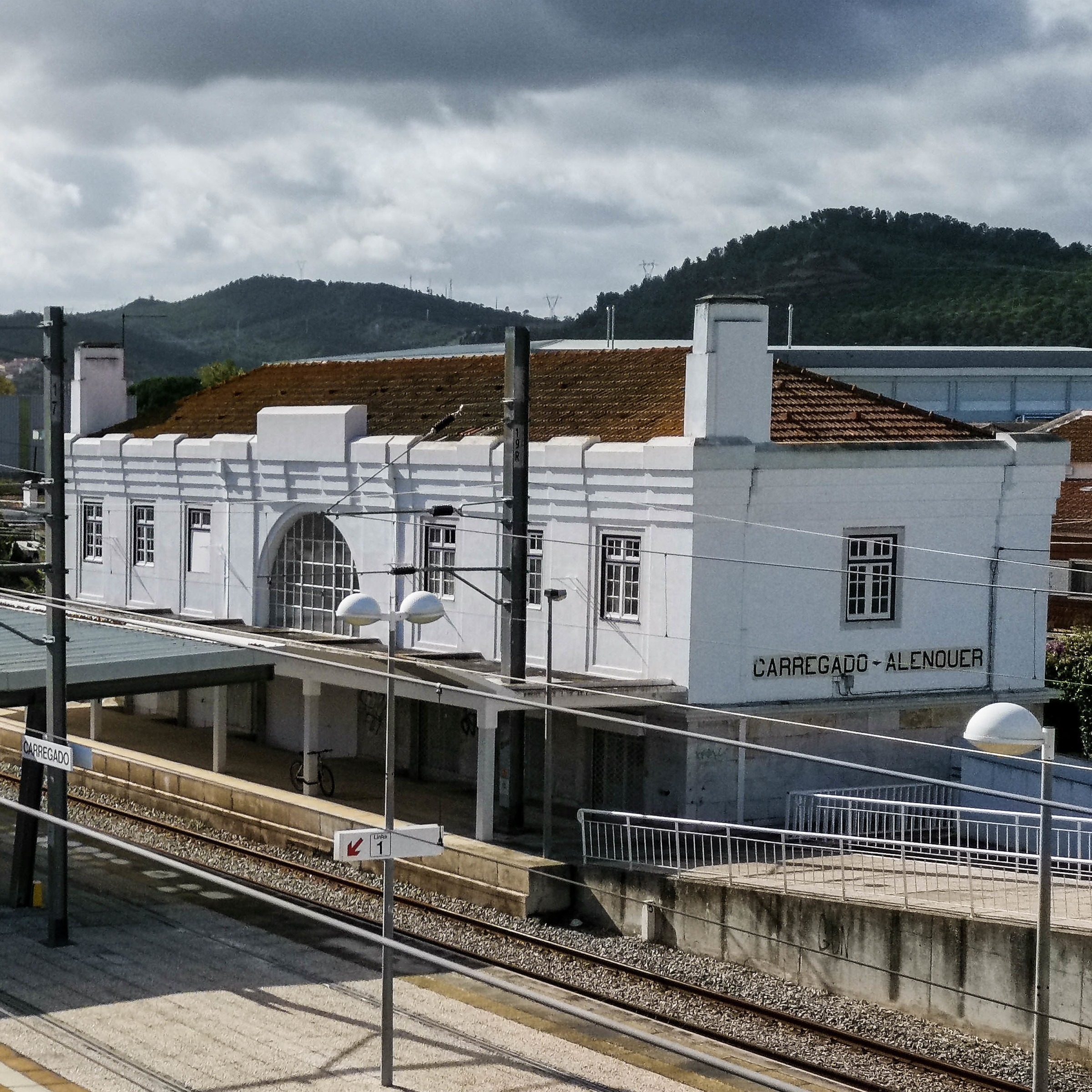 Carregado train station.